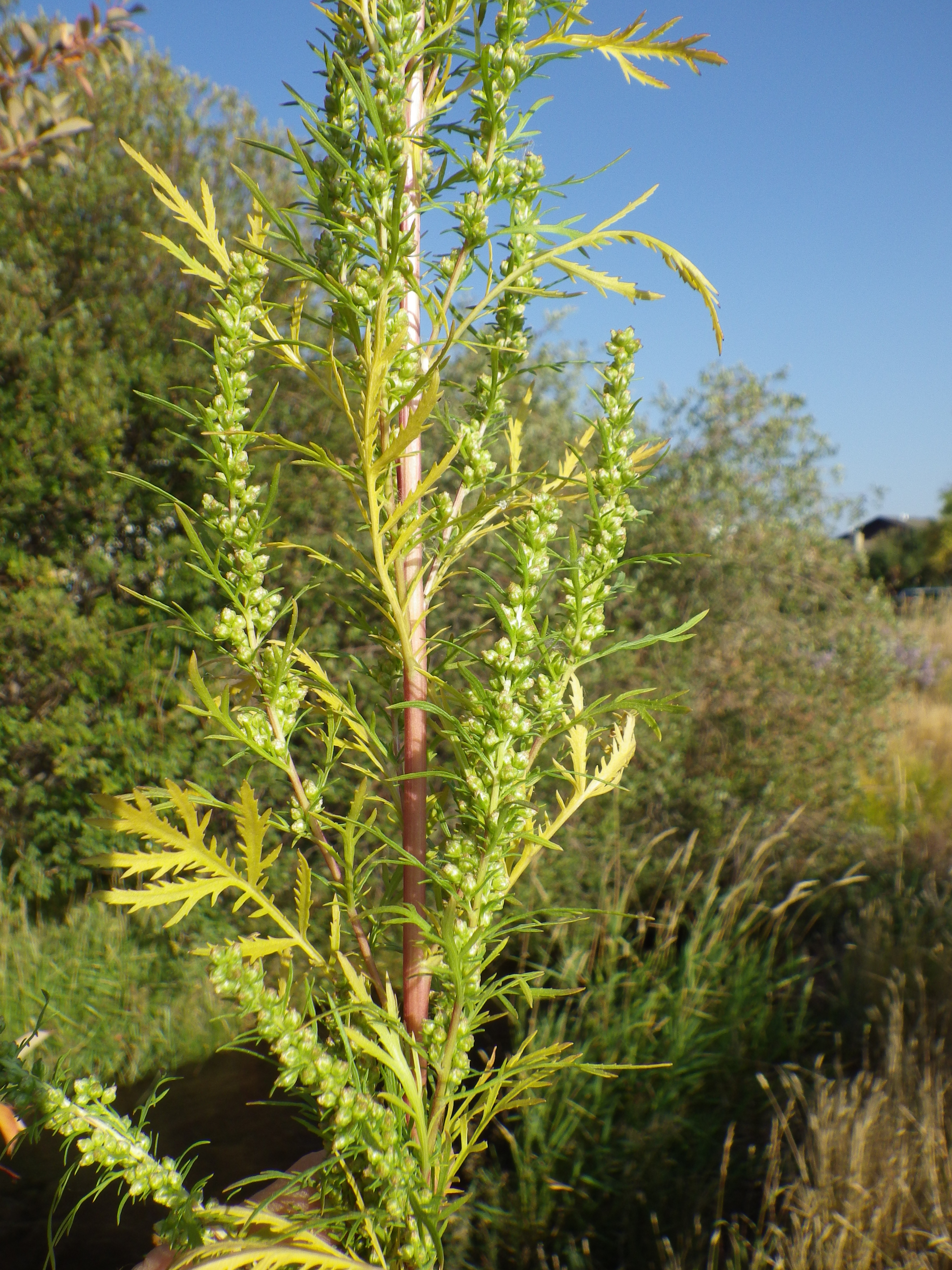 An occasional annual to biennial Artemisia common to disturbed and riparian settings in Montana. The leaves are green, glabrous, and deeply divided and the leaf segements have sharp serrations including at the tip.